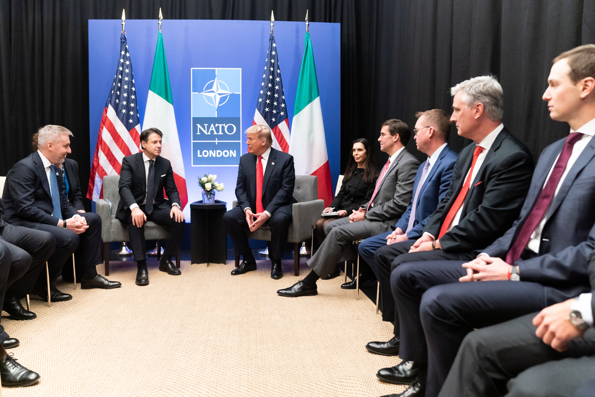 President Donald J. Trump participates in a pull-aside meeting with the Prime Minister of the Italian Republic Giuseppe Conti during the North Atlantic Treaty Organization (NATO) 70th anniversary meeting Wednesday, Dec. 4, 2019 in London. (Official White House Photo by Shealah Craighead)